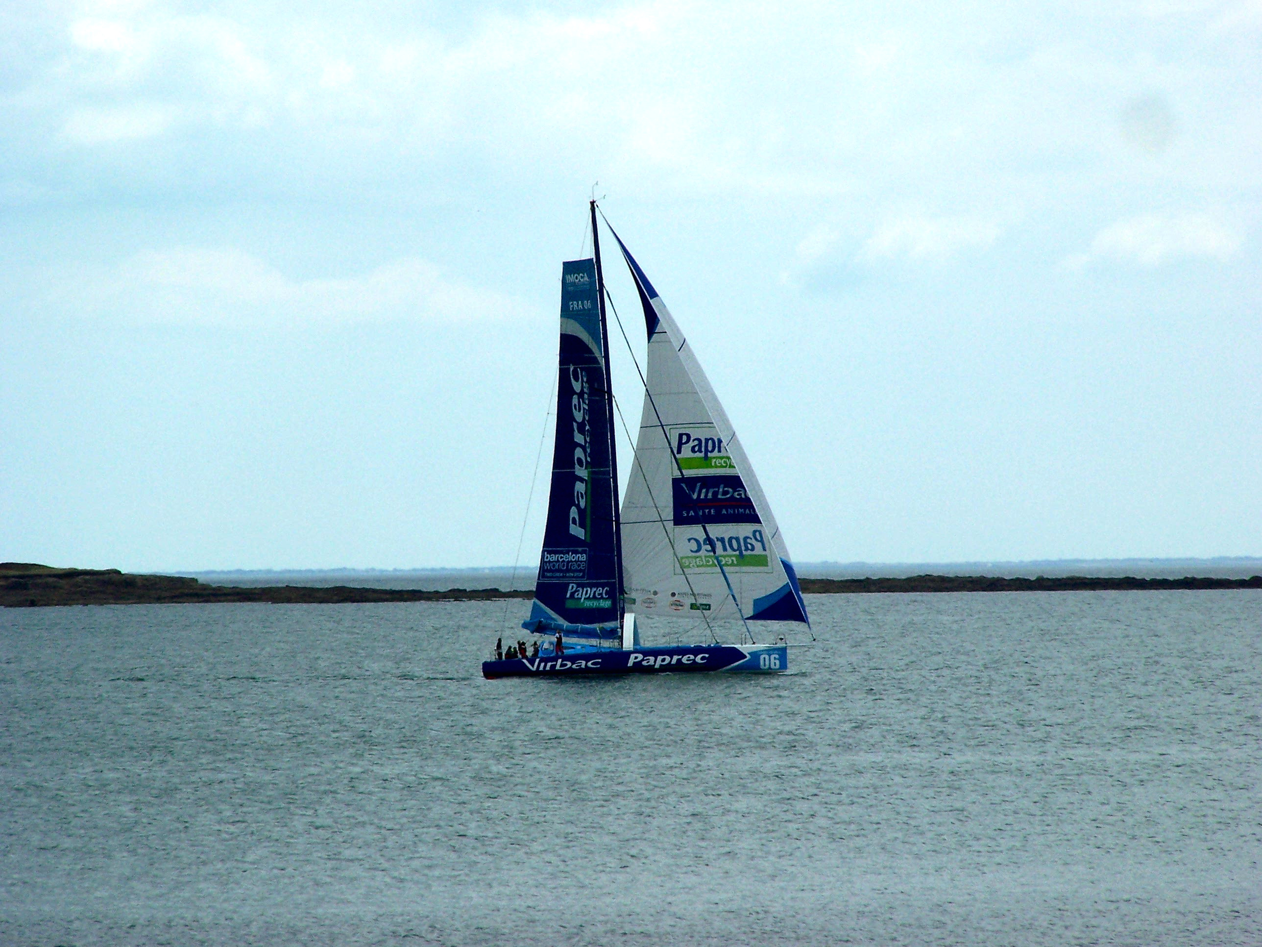 The boat Virbac Paprec 3 manoeuvring in the Passe de l'ouest between Lorient and Groix on 21 July 2011.